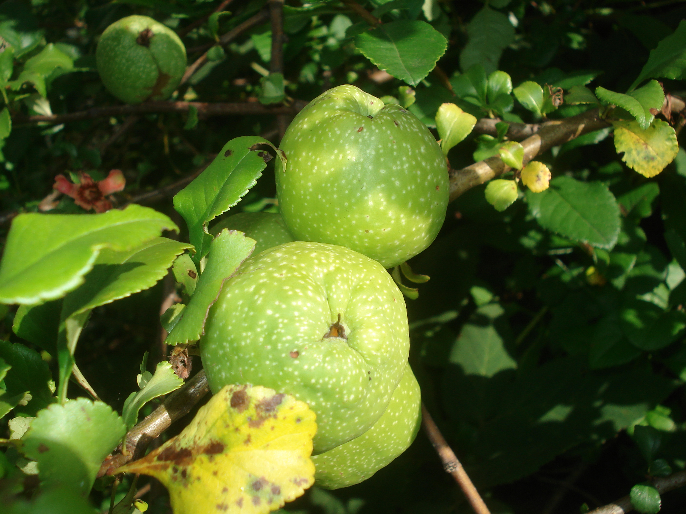 Japanese Quince (Chaenomeles japonica). Found in Audriņi near Rezekne city, Latvia